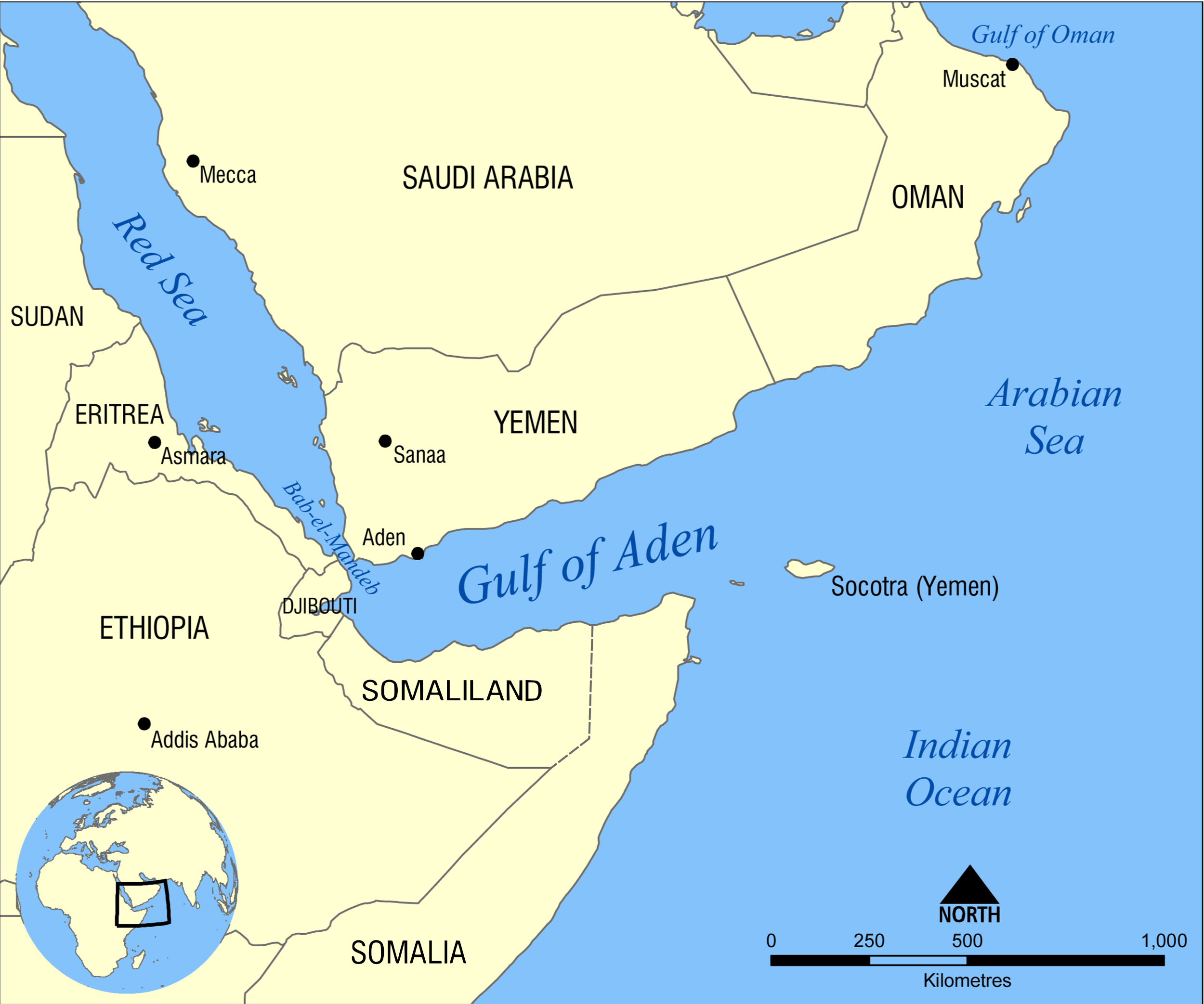 Map showing the location of the Gulf of Aden, located between Yemen and Somalia. Nearby bodies of water include the Indian Ocean, Red Sea, Arabian Sea, and the Bab-el-Mandeb Strait.